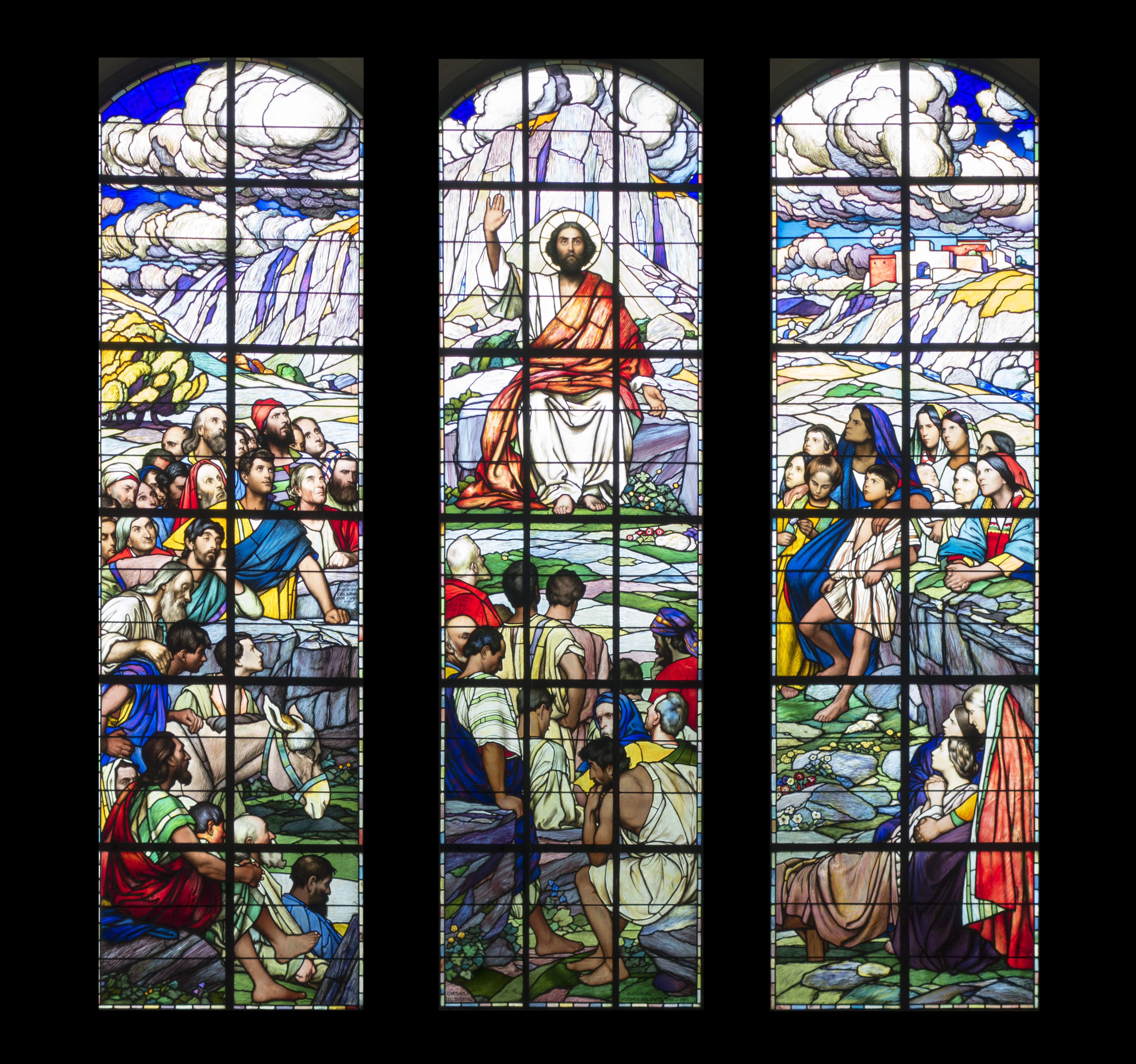 Sermon on the mount windows at Herzogenbuchsee Reformed church near Berne. Picture by Eugène Burnand 1910, glasswork by Emil Gerster of Basel 1911